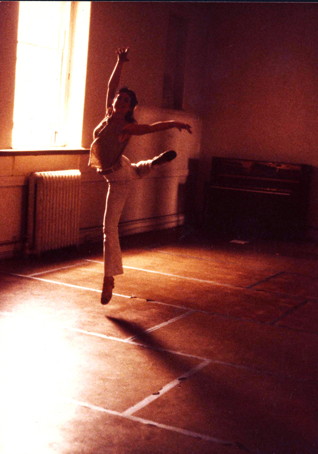 A casual photograph taken at the Theatre Project in Baltimore. Dancer/choreographer Shelley Walpert-Fineman was practicing, and I took this shot.